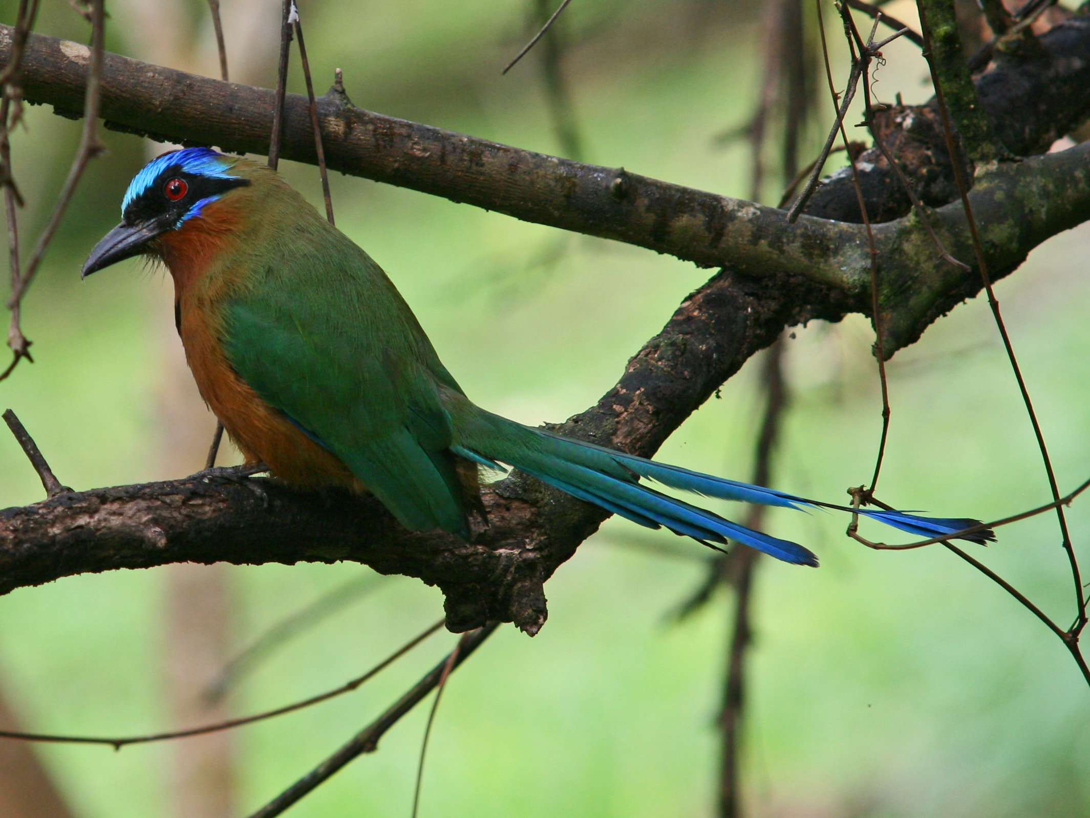 A beautifully plumed Trinidad Motmot Momotus bahamensis at Plymouth, on the island of Tobago in the country of Trinidad and Tobago. This bird species is restricted to the Caribbean.